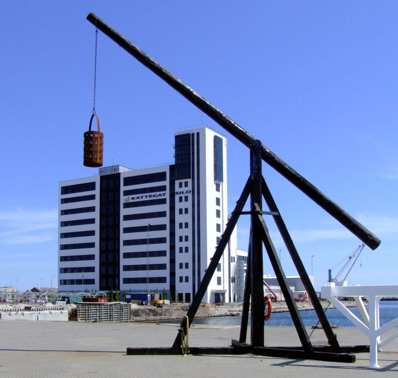 Kattegat Silo situated in the city of Frederikshavn, Denmark